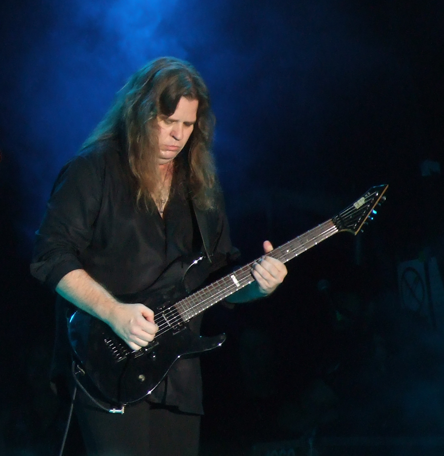 The American guitarist Craig Goldy performing with the tribute formation DIO Disciples at Kavarna Rock Fest 2012, Bulgaria.